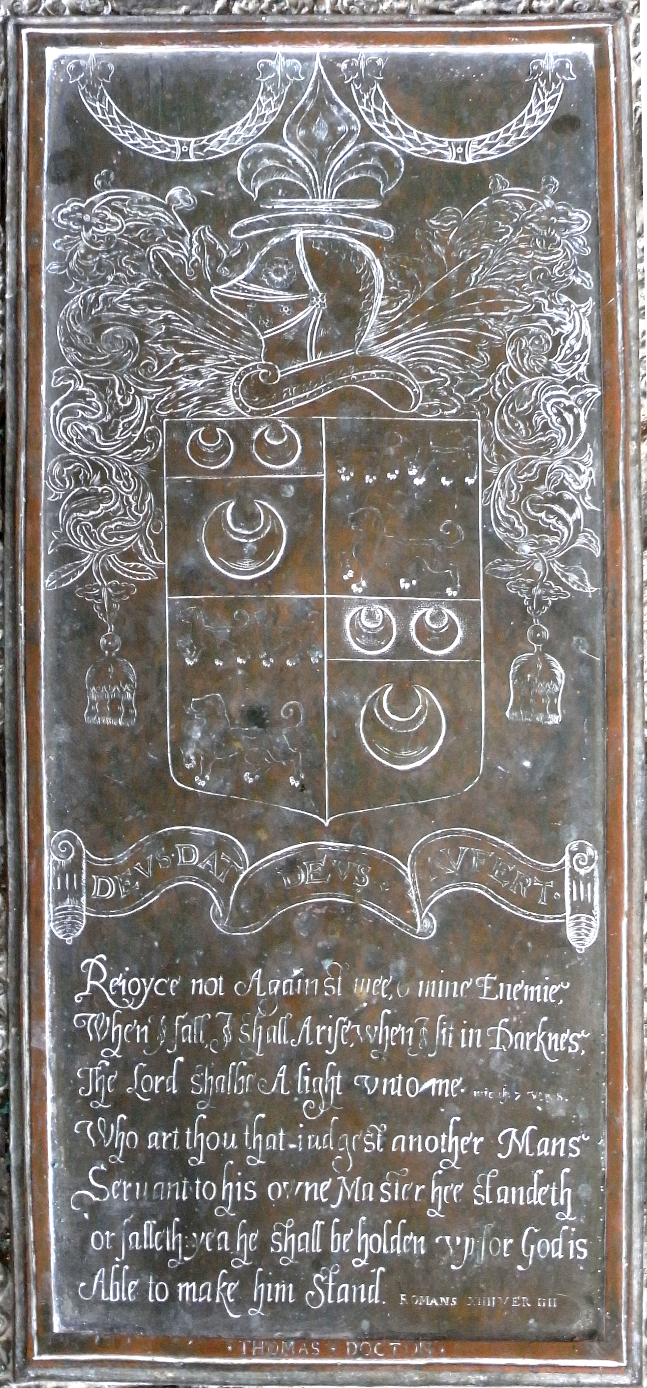 Detail from ledger stone of Thomas Docton (d.1618) of Docton in the parish of Hartland, Devon. The arms show Docton (Per fess gules and argent, two crescents in chief or another in base sable) quartering Chantrell (Argent, three talbots passant sable), the arms of his mother, an heraldic heiress. (See: Chope, R.Pearse, The Book of Hartland, Torquay, 1940, pp.142-3)